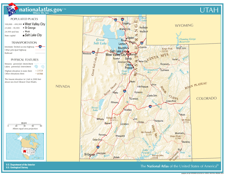 Map of Utah.